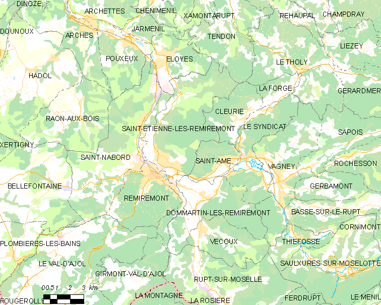 Map of French municipality Saint-Étienne-lès-Remiremont